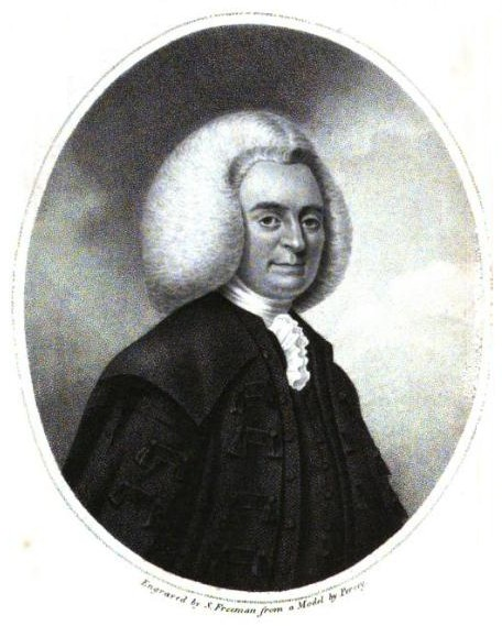 Engraving of Colin Maclaurin, the mathematician, by S. Freeman